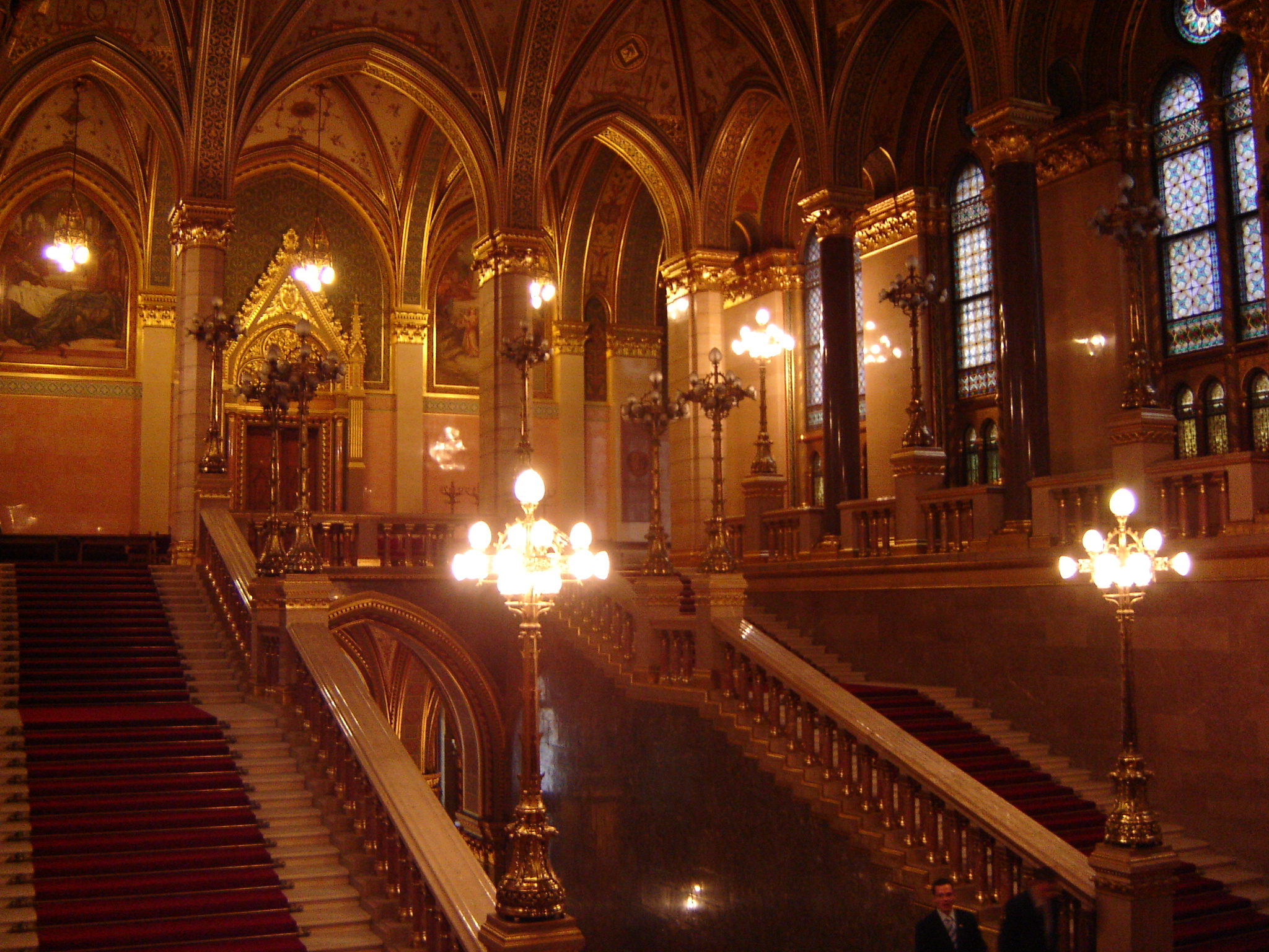 A grand stairway inside Hungarian Parliament